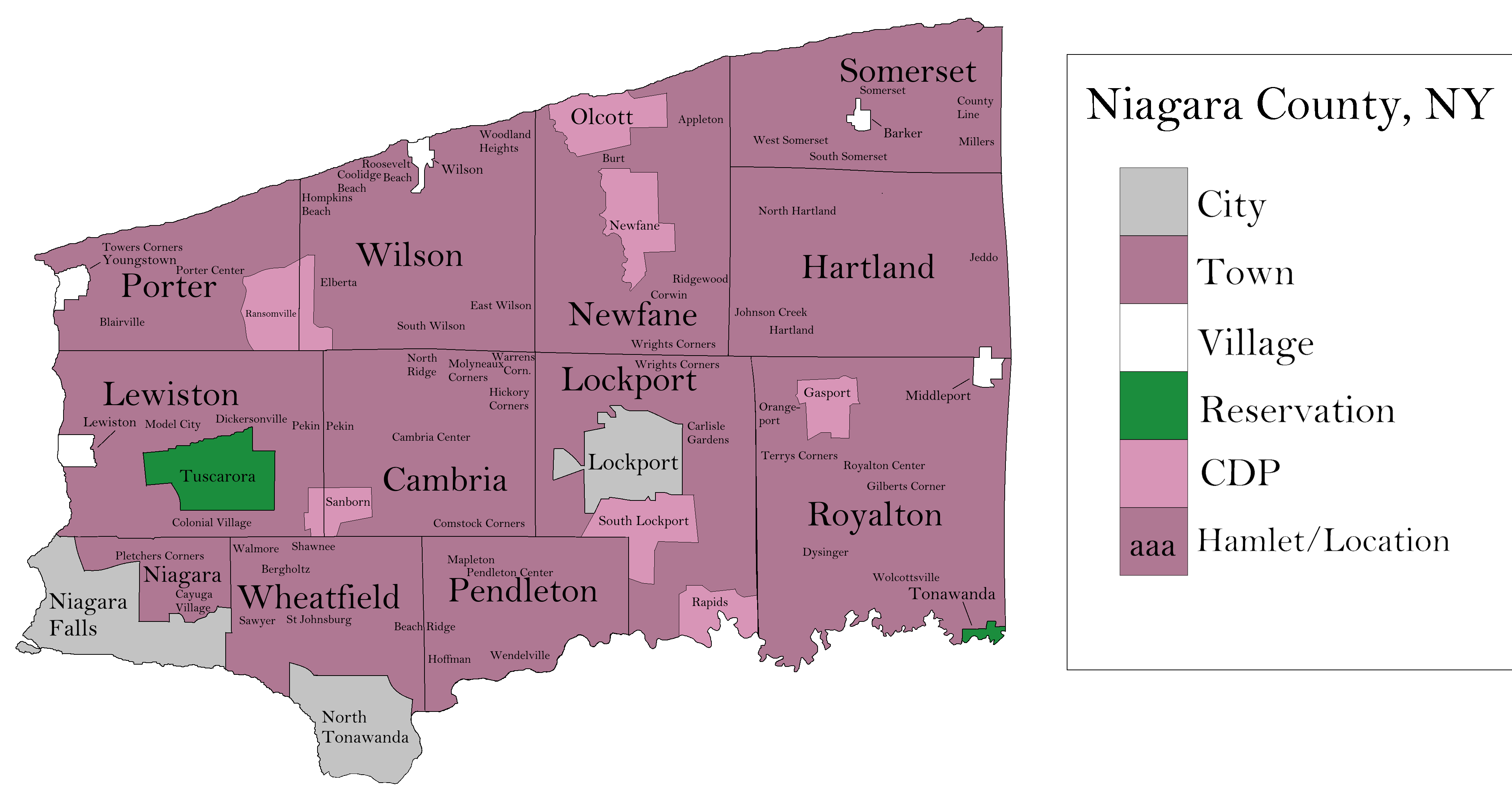 This is a map of Niagara County, NY showing cities, towns, villages, reservations, CDPs, and hamlets.